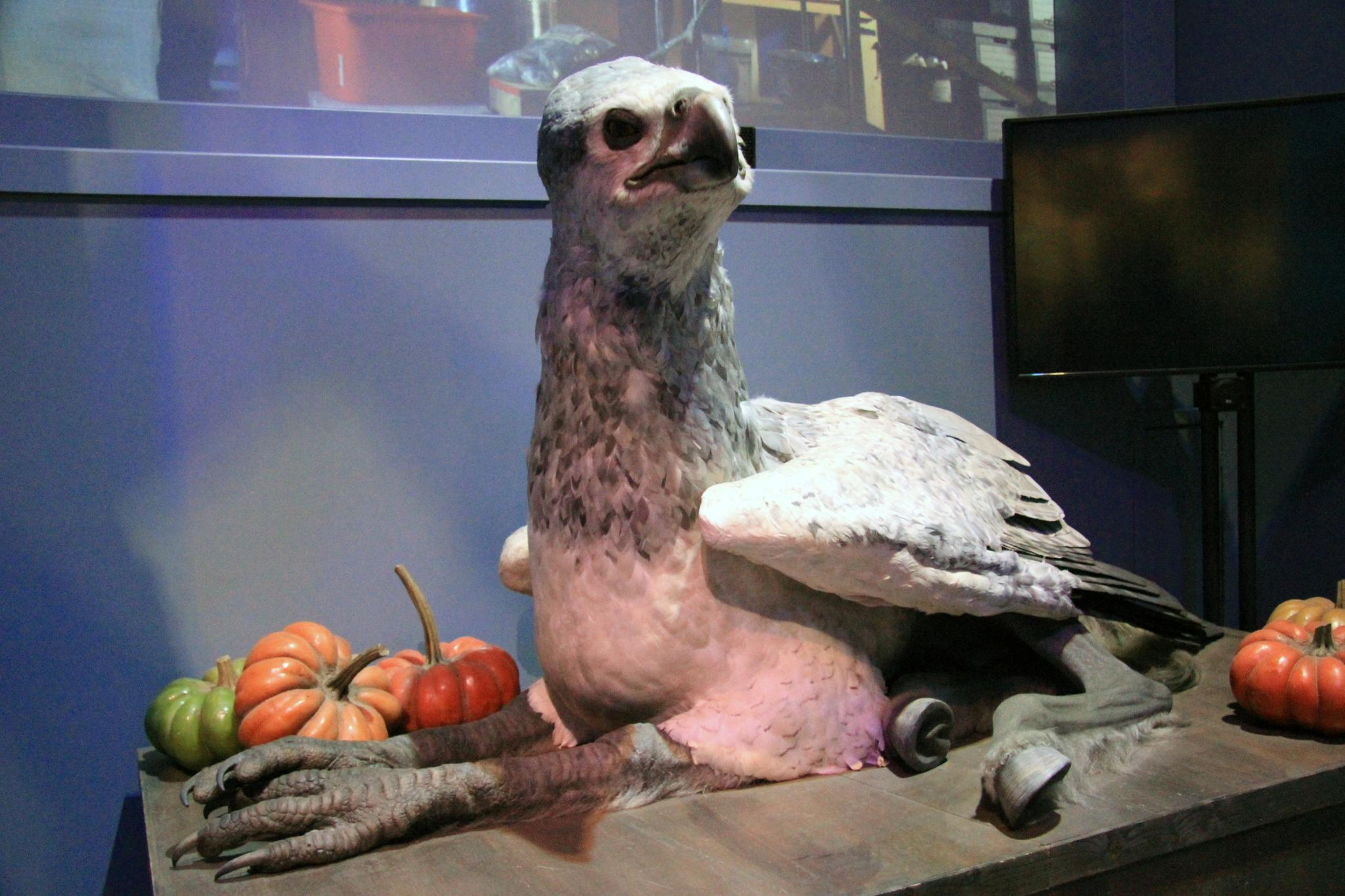 Warner Bros. Studio Tour London: The Making of Harry Potter.